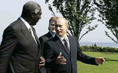 Vladimir Putin discussed items on the G8 summit agenda and various aspects of Russia’s bilateral relations. Vladimir Putin also had separate talks with UN Secretary General Ban Ki-moon and President John Kufuor.